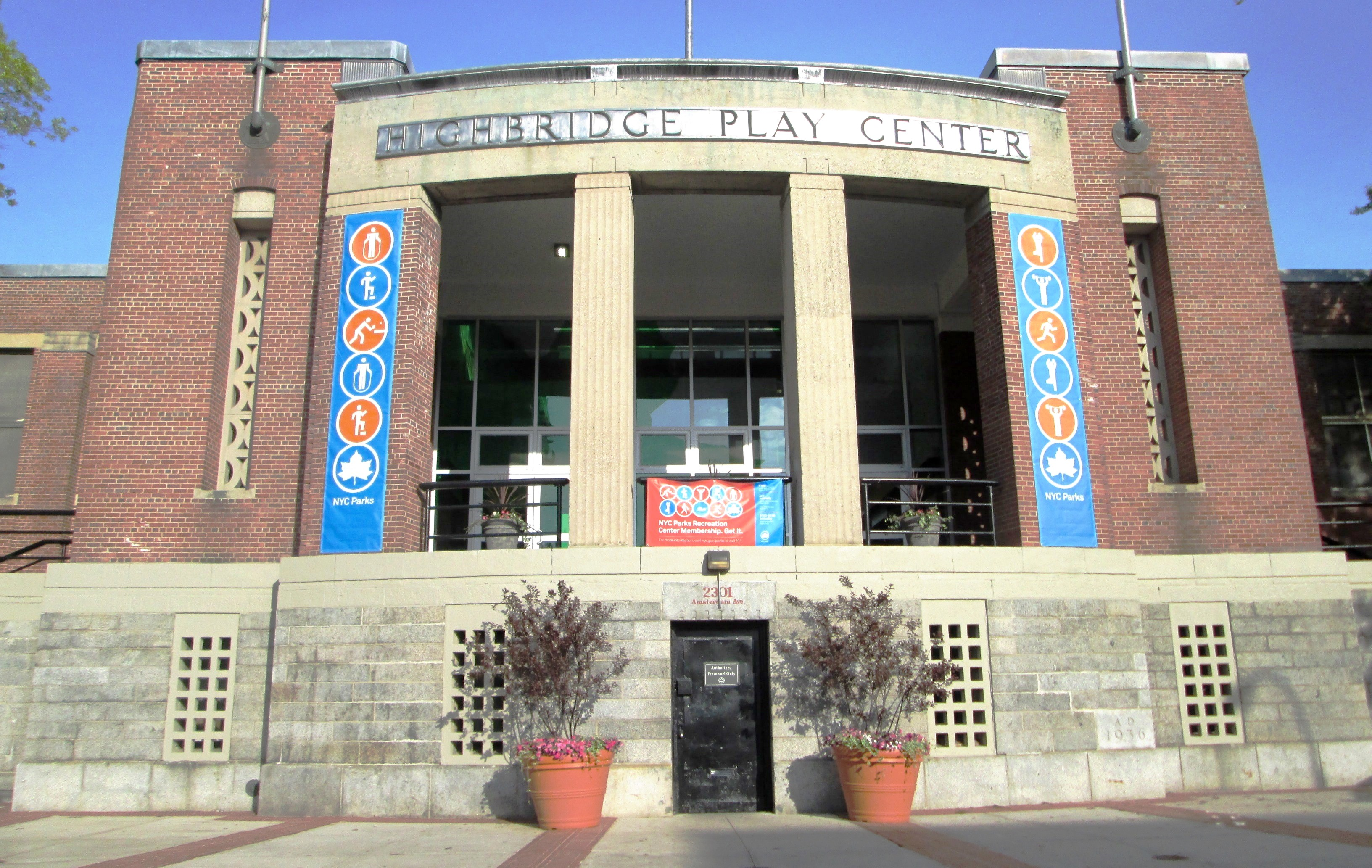 The Highbridge Play Center located on Amsterdam Avenue between West 172nd and West 174th Streets in the Washington Heights neighborhood of Manhattan, New York City, in Highbridge Park, was built in 1934-36 in the Art Moderne style. The supervising architect was Aymar Embury II, and the landscape architect was Gilmore D. Clarke, among others. It was built on the site of the reservoir which had formerly served the High Bridge Water Tower, and features a very large swimming pool. (Sources: Guide to NYC Landmarks (4th ed.) and AIA Guide to NYC (5th ed.))